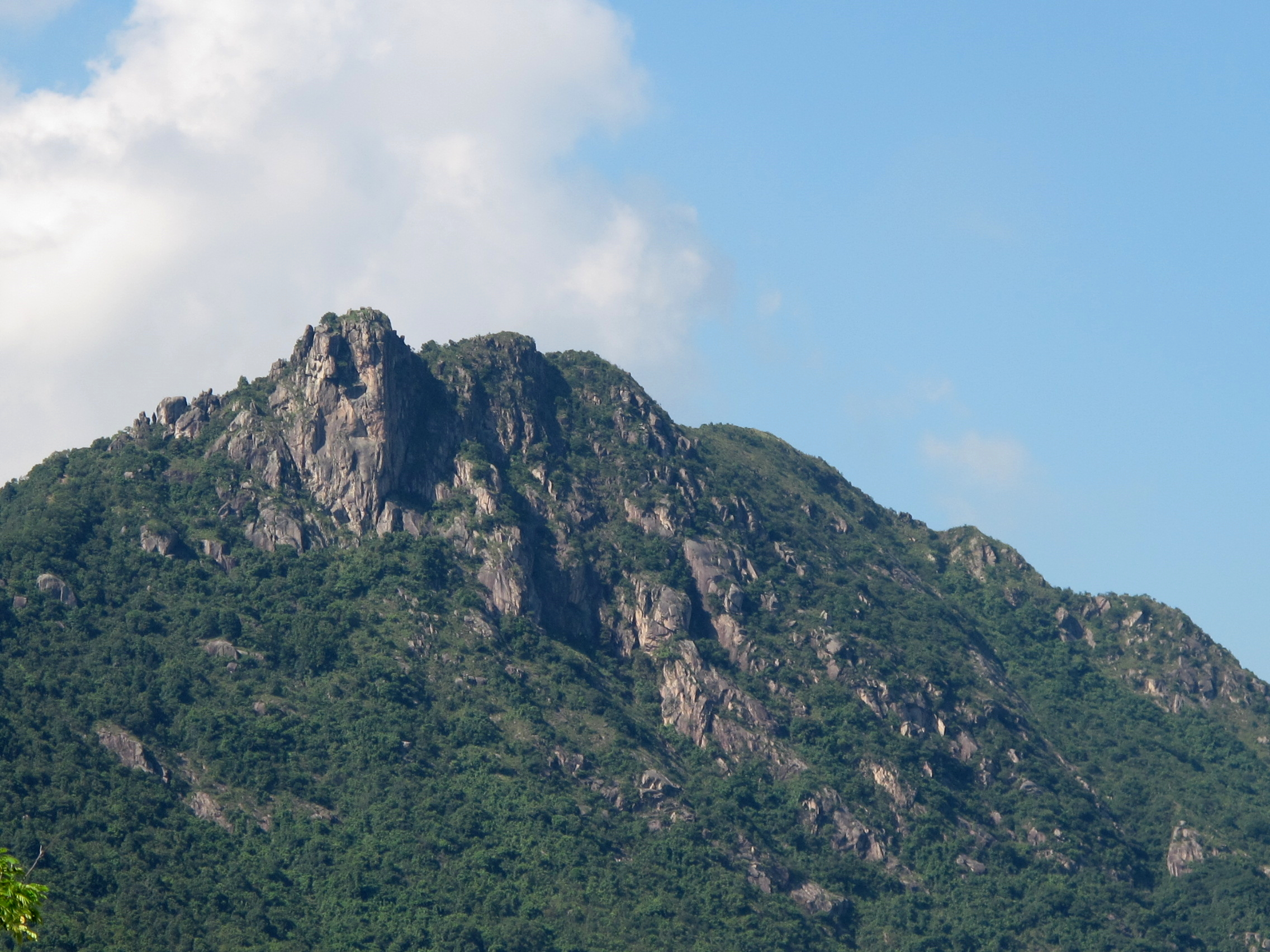 Lion Rock